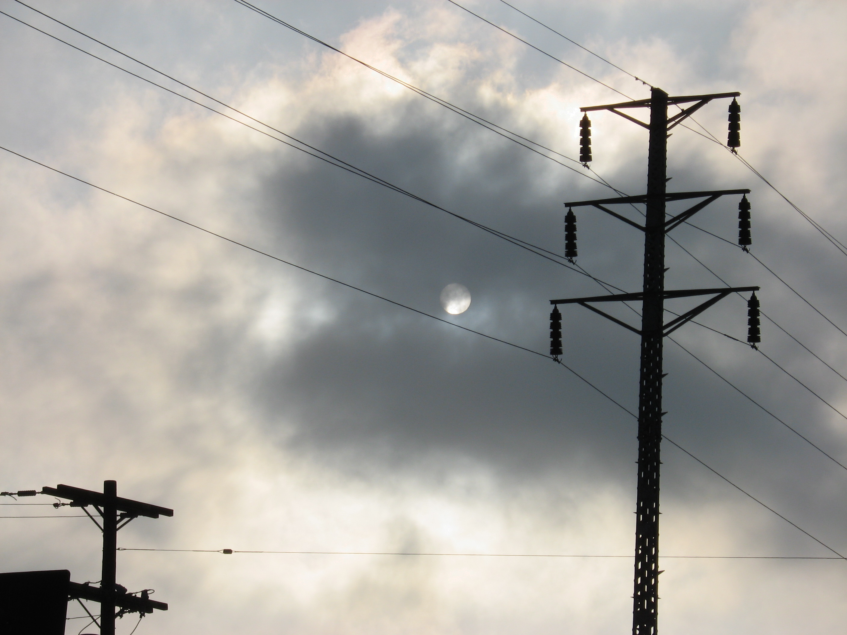 Sun disk behind clouds; downtown Los Angeles, California.